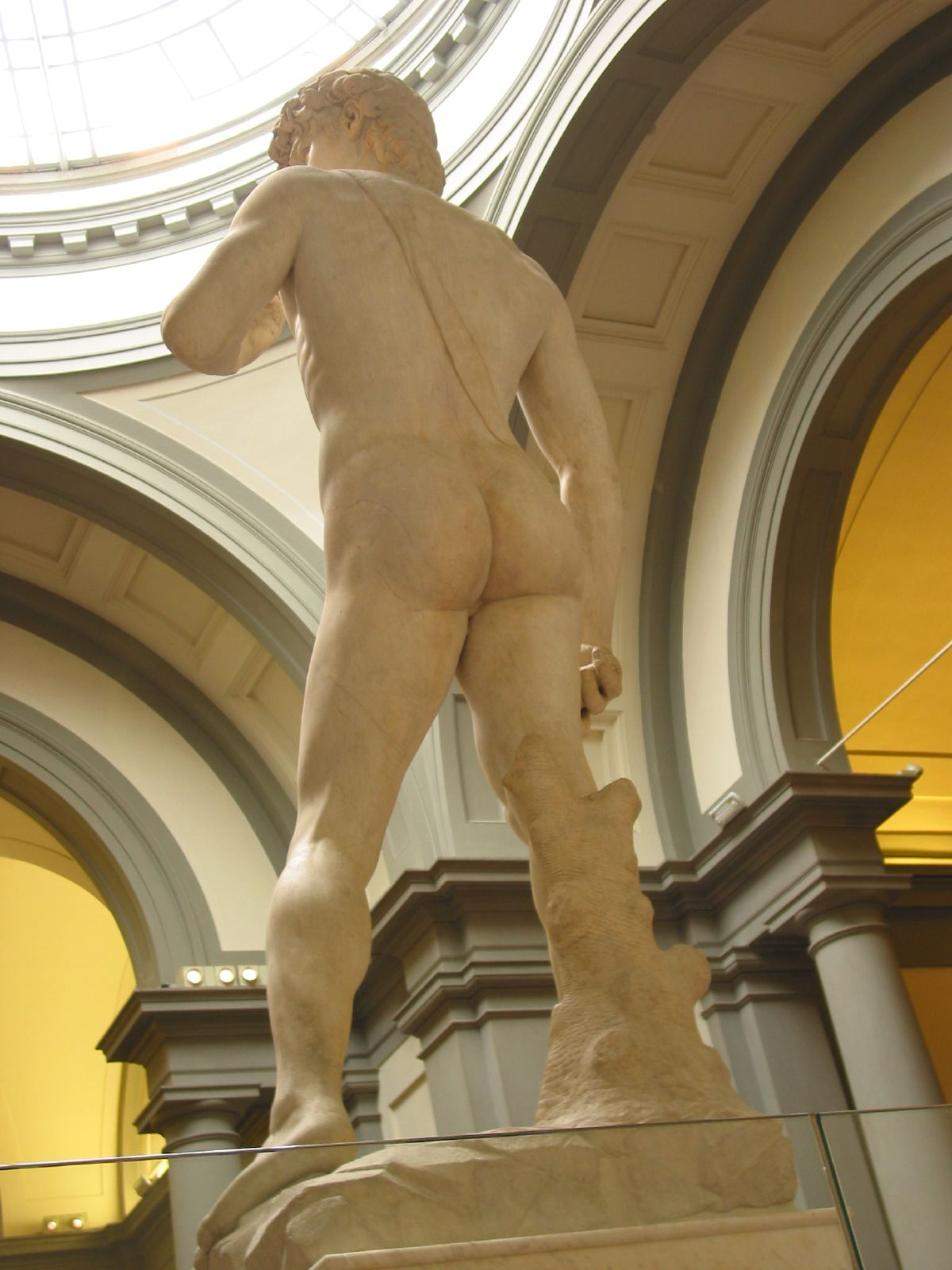 front